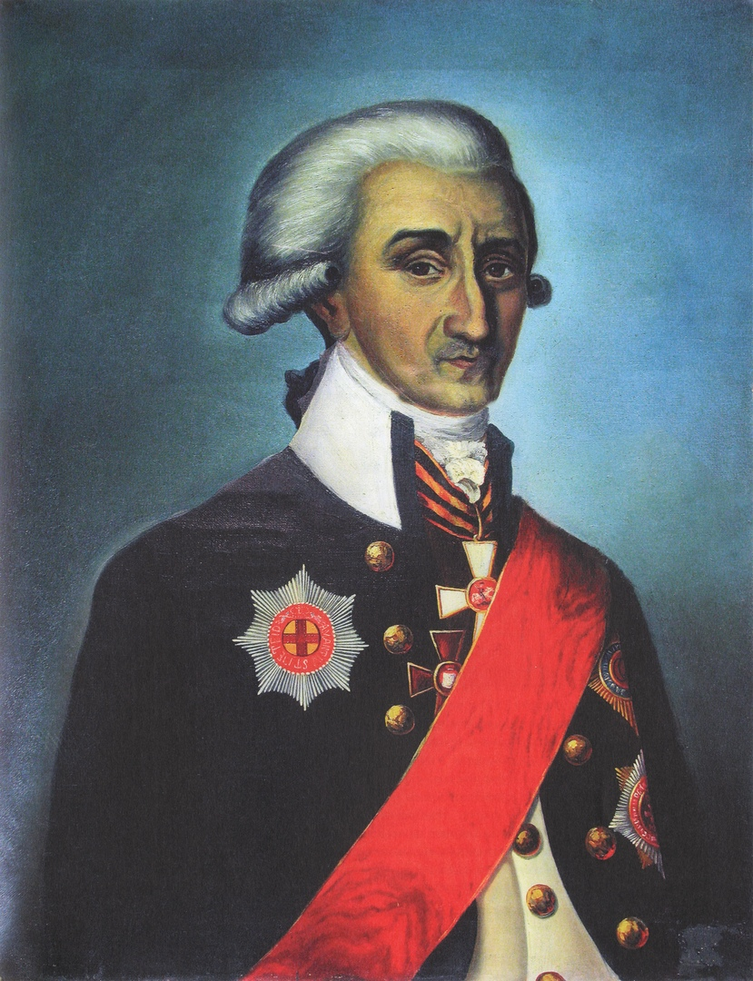 Povalishin Illarion Afanasievich